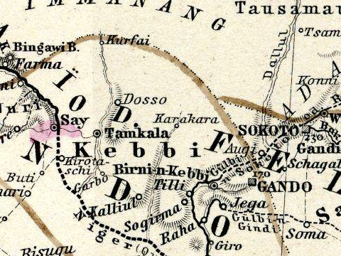 Karakara in Adolf Stielers Handatlas, 1891.